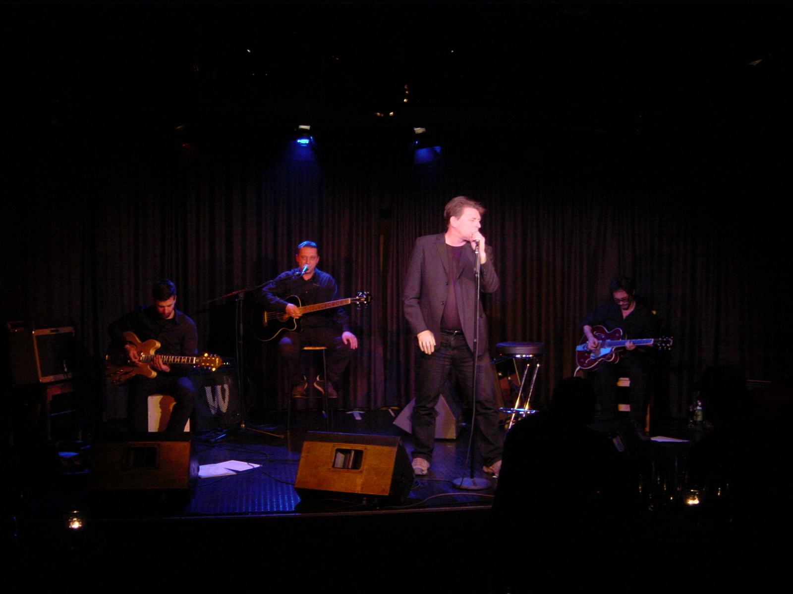 German music group "Die Art" in Pirna